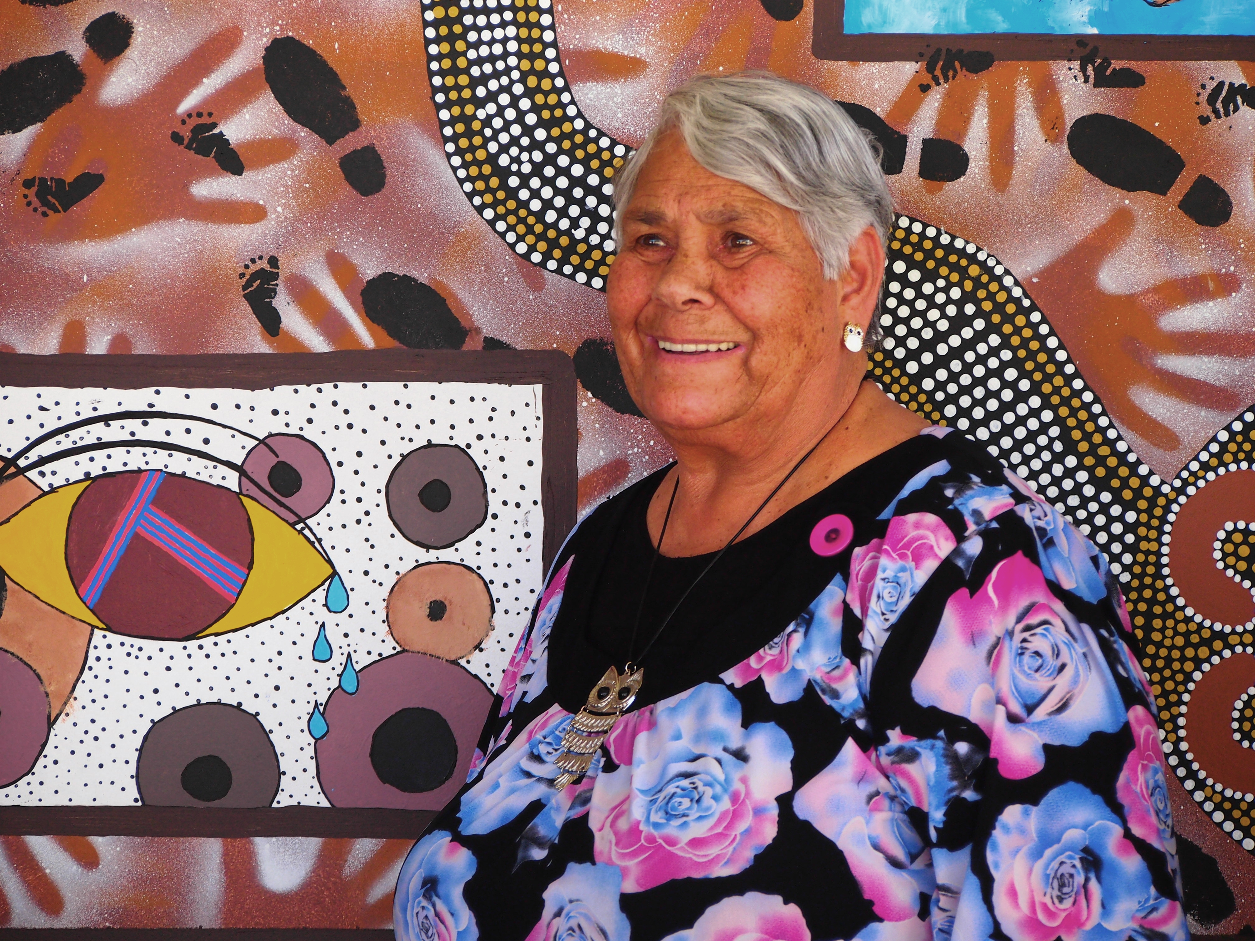 Lowitja O'Donoghue at a ceremony to unveil a mural at the site of the former Colebrook Children's Home at Eden Hills, South Australia, 6 November 2013. Original filename = PB060462.JPG